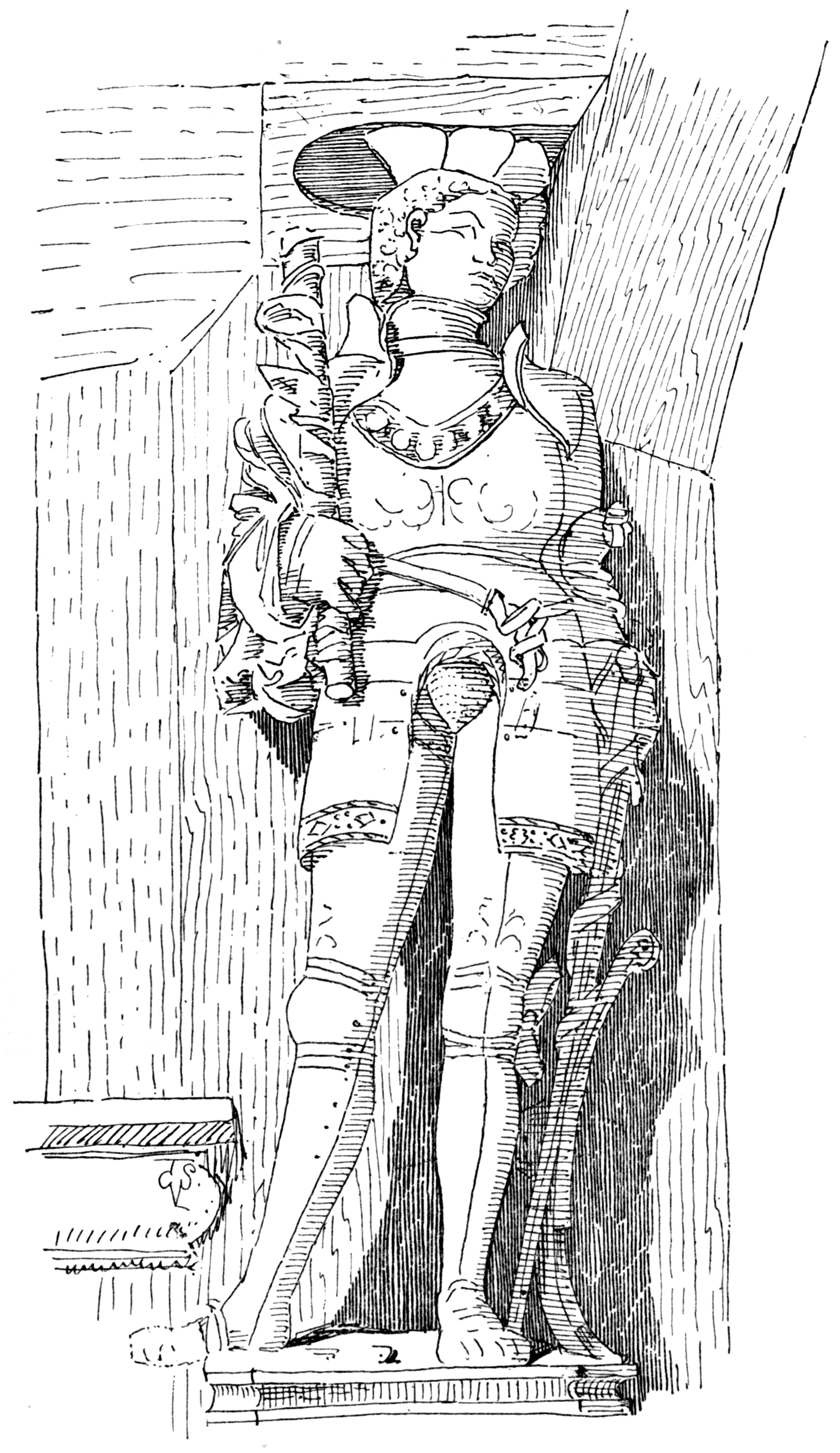 Mauritius, Cathedral of Halle